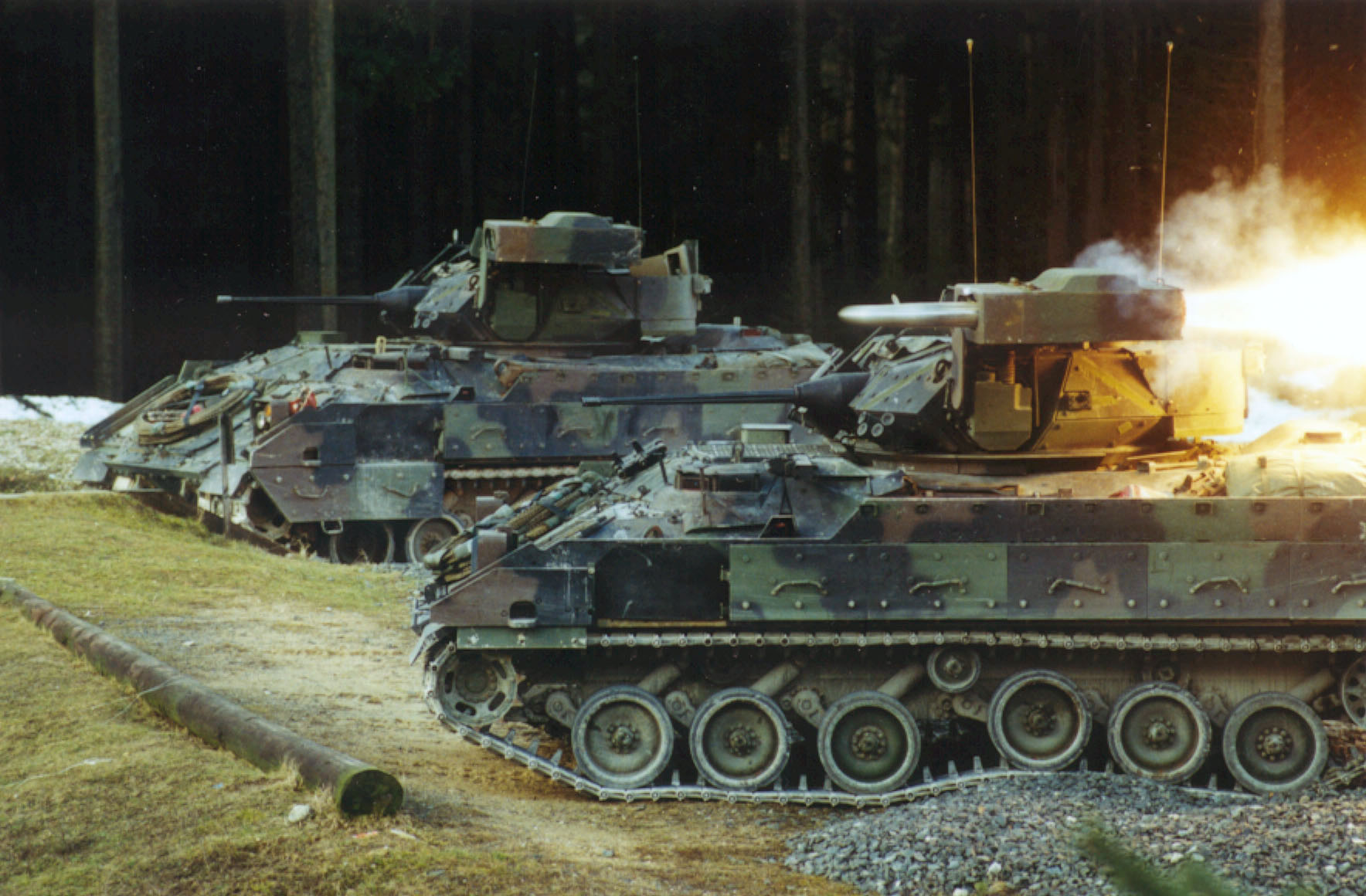 Launching a TOW missile. Photo: US DoD.